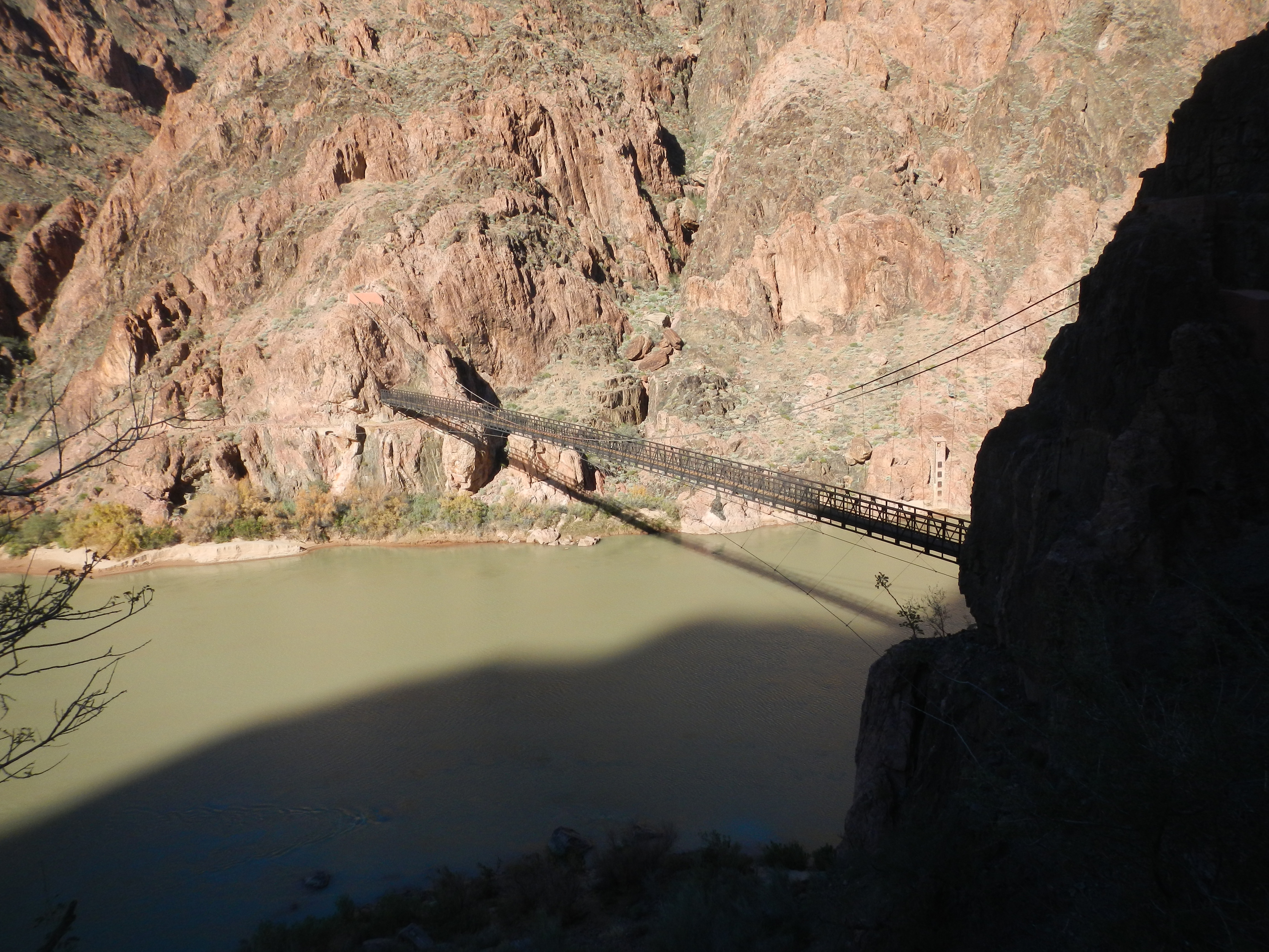 Kaibab Trail Suspension Bridge (Black Bridge), the footbridge over the Colorado River in the the Grand Canyon. The Black Bridge on the South Kaibab Trail, seen from above on the trail, in Grand Canyon National Park, Arizona. On December 8, 2013.